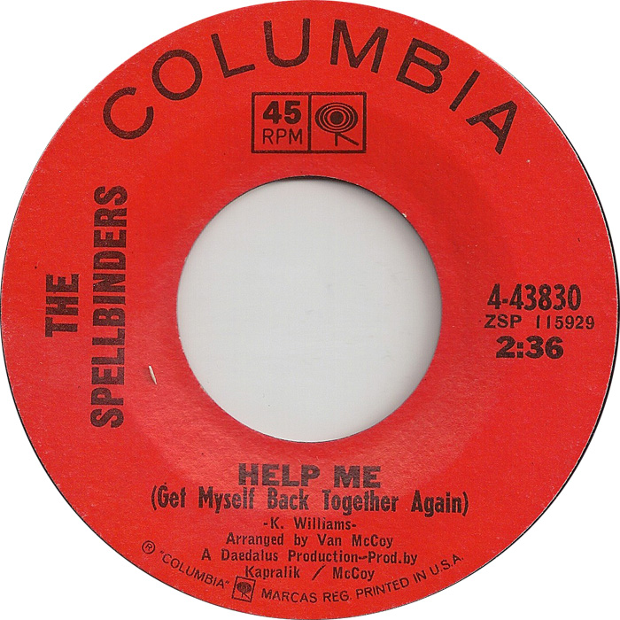 The US release of Help me.